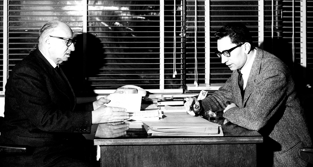 Automobile designers Ugo Zagato (left) and his son Gianni Zagato (right). Probably 1960s in their Milano headquarters.